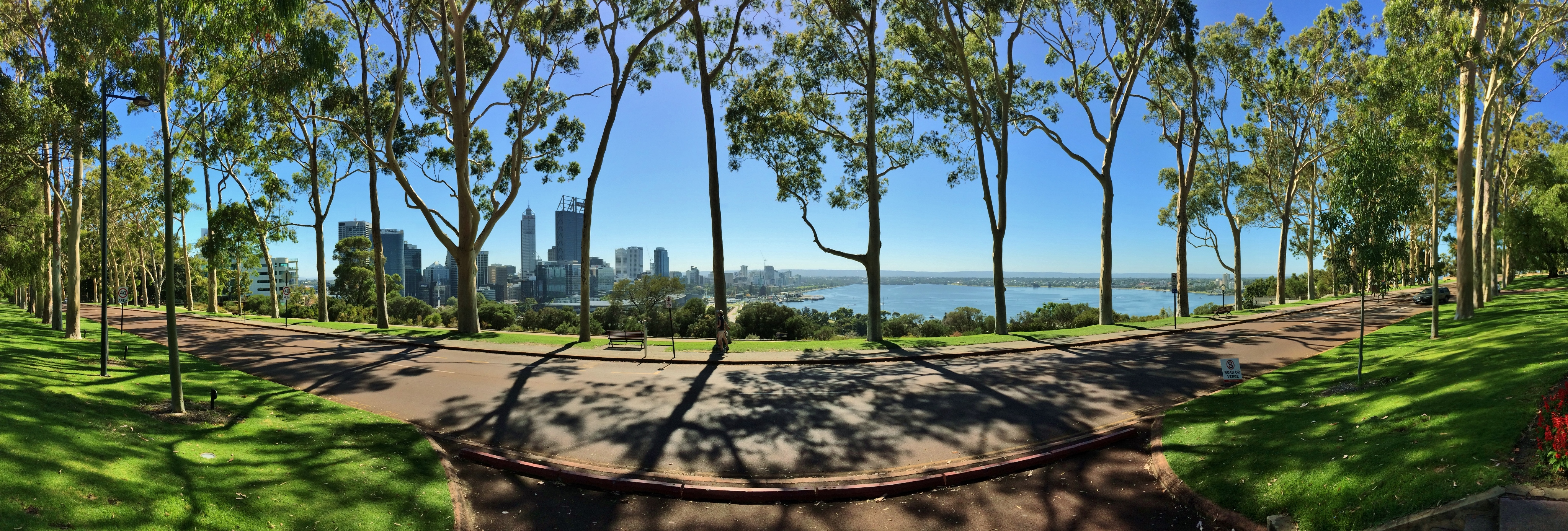 Panorama of Lemon scented gums (Corymbia citriodora) planted along Fraser Avenue, Kings Park, Perth WA